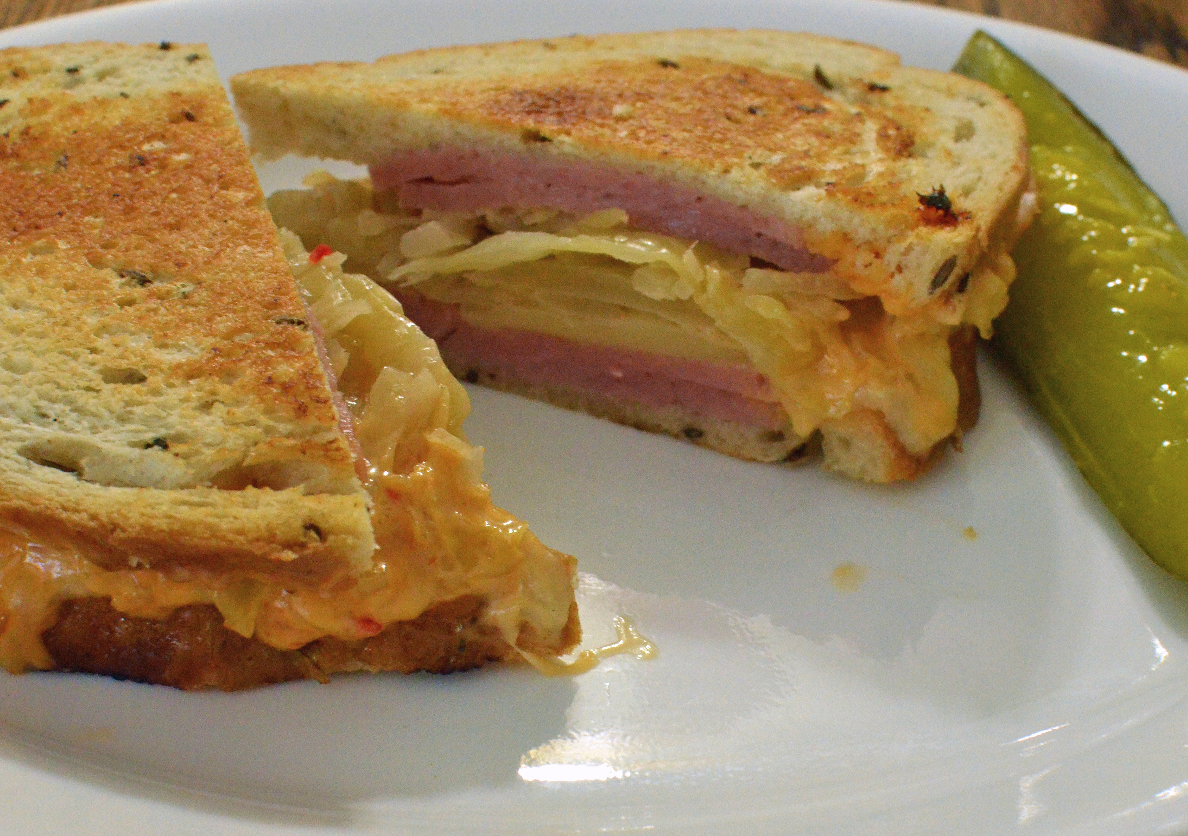 A Reuben sandwich prepared with spam